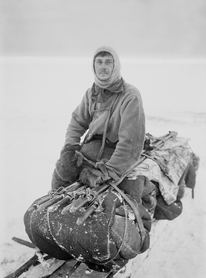 Sir Charles Seymour Wright (7 April 1887 – 1 November 1975), member of Robert Falcon Scott's antarctic expedition of 1910-1913, the Terra Nova Expedition